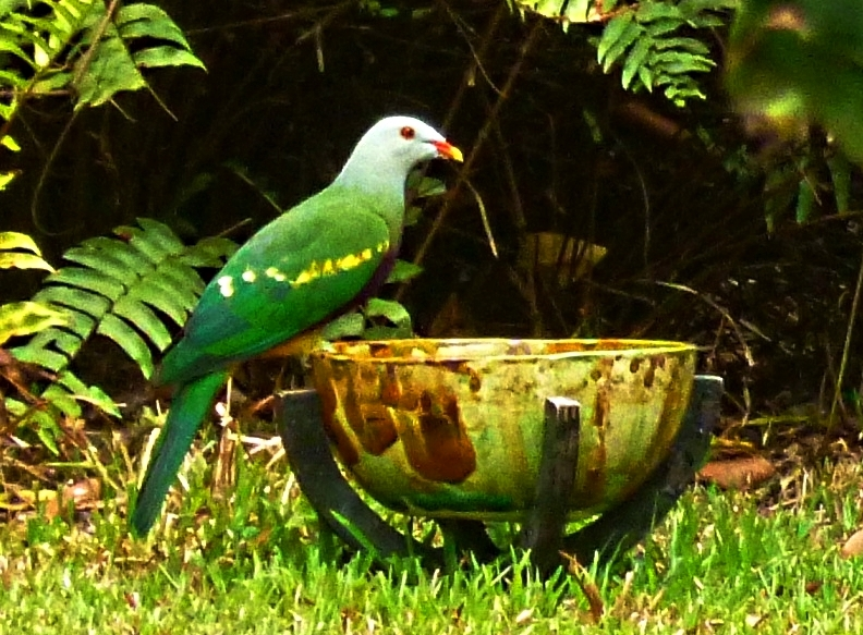 I took this photo in my back garden near Cooktown, Queensland in 2012